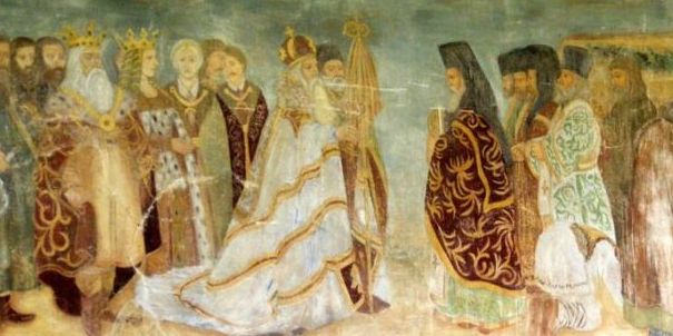 St. John the New Monastery in Suceava - Clisiarniţa (exterior painting).